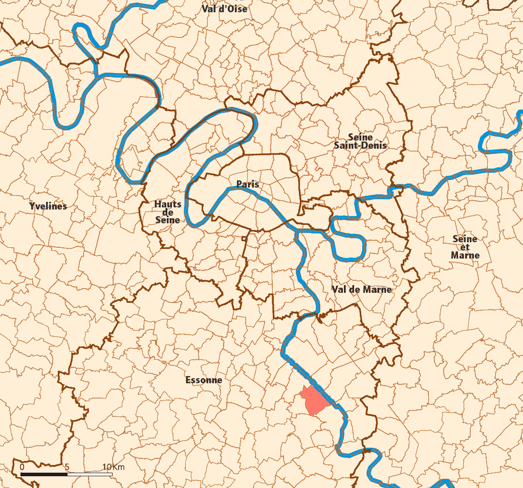 Created map myself.